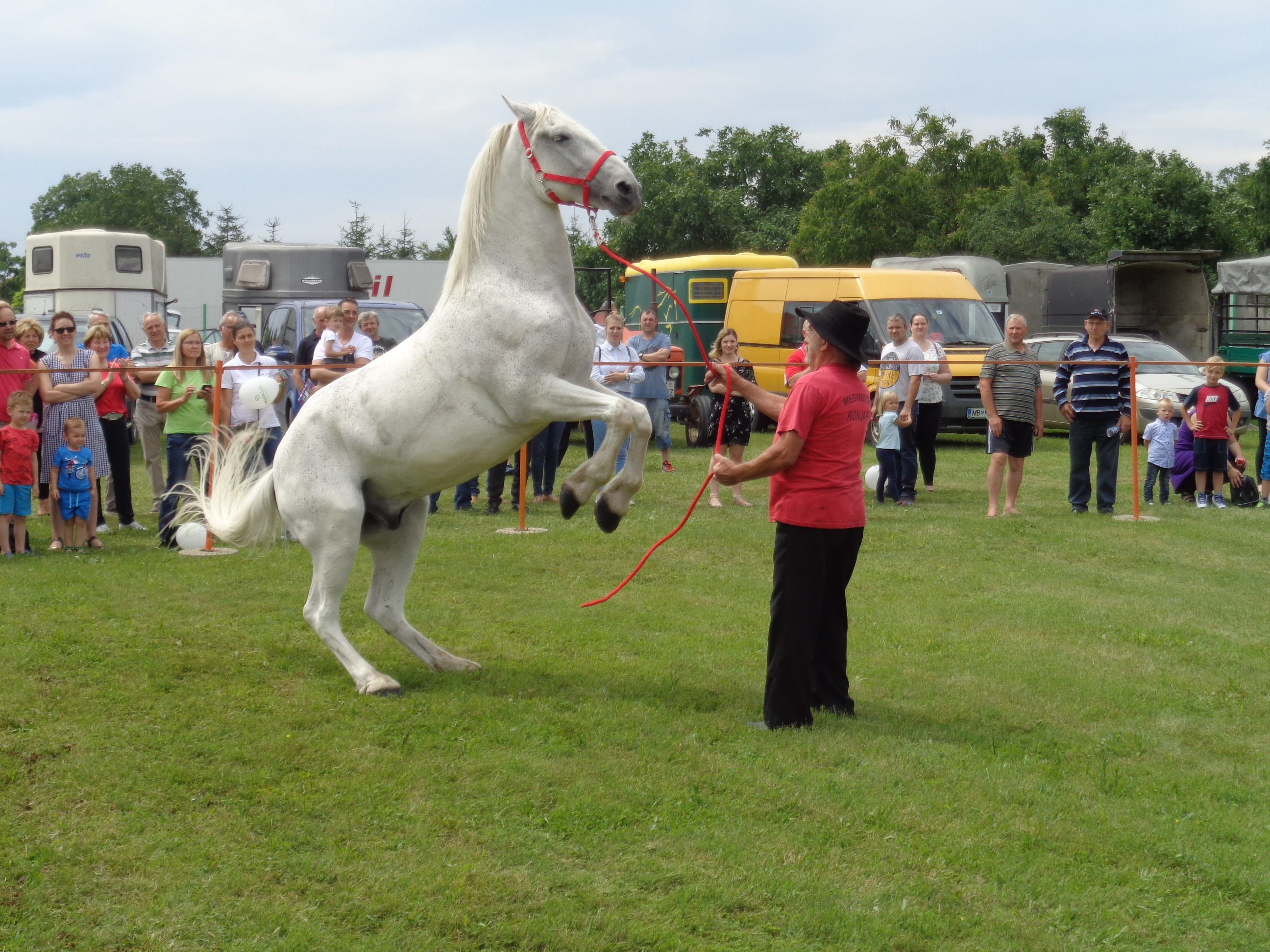 Rearing lipizzan horse at 2018 MESAP Trade Fair in Nedelišće, Medjimurje County, Croatia